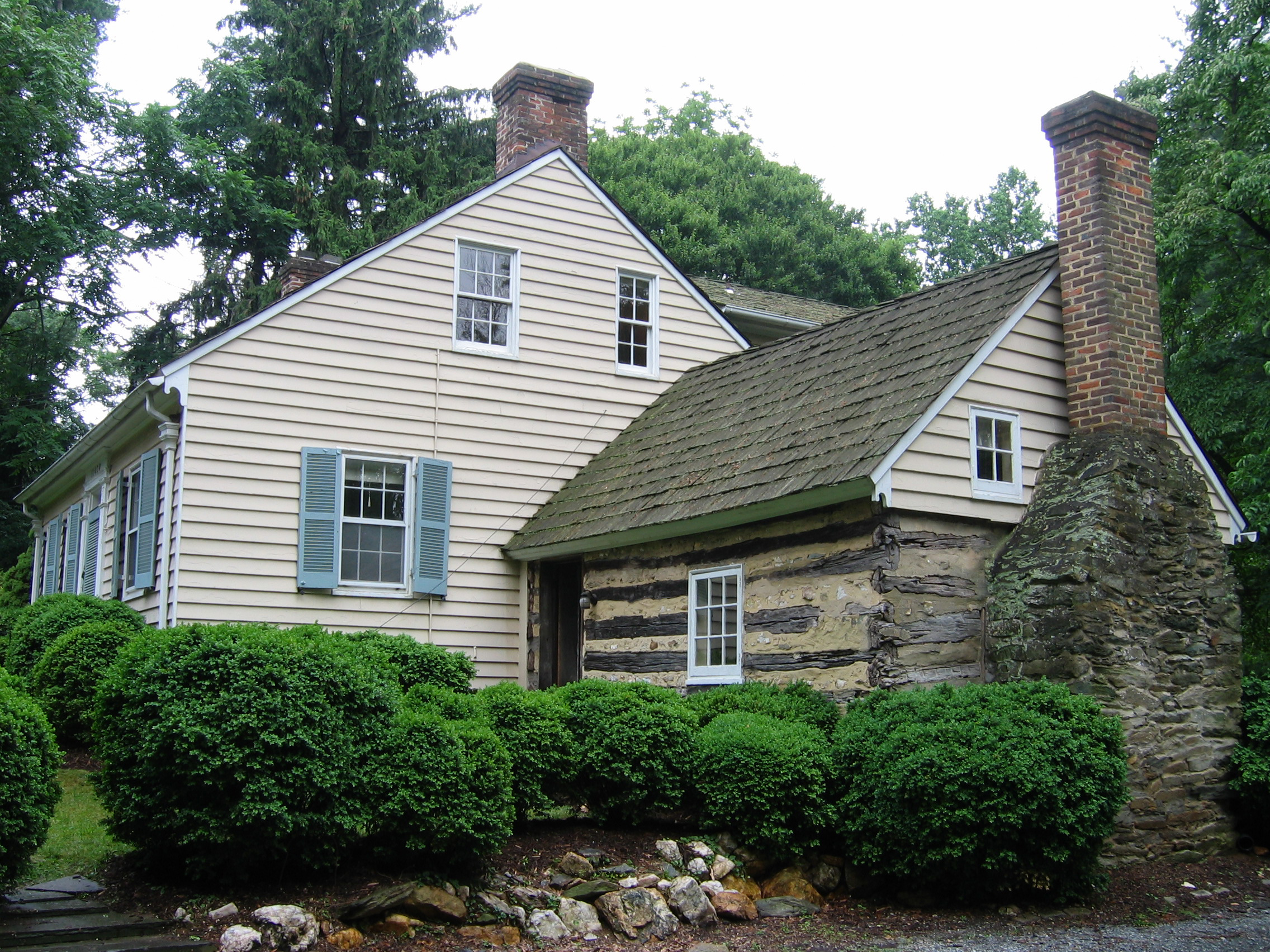 Uncle Tom's Cabin (Riley House), located in Bethesda, Maryland, was once home to Josiah Henson who inspired Harriet Beecher Stowe's novel, Uncle Tom's Cabin.